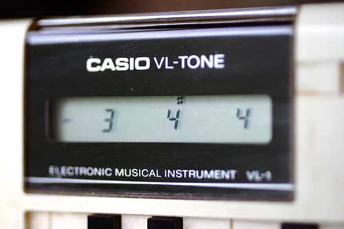 Photograph of the LCD of a Casio VL-Tone taken by Jyoti Mishra